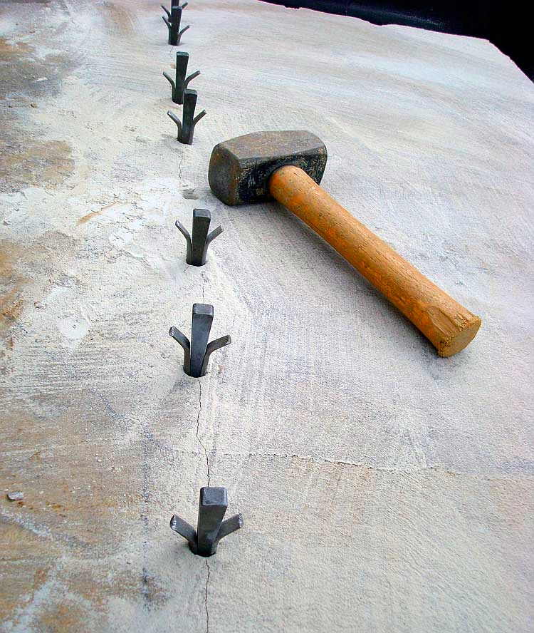 Plug and feathers in rock with hammer